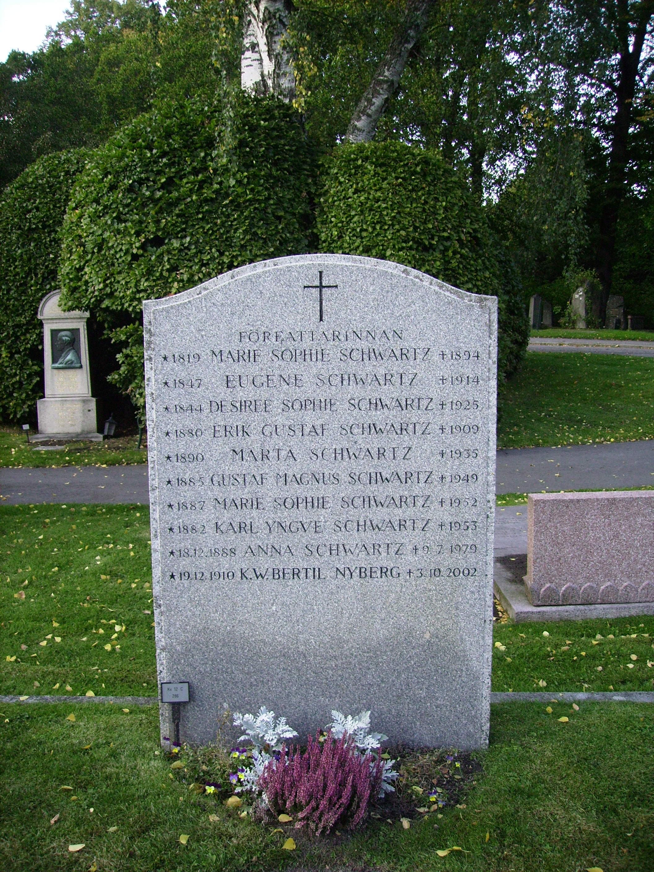 Picture of Marie Sophie Schwartz' grave at Norra begravningsplatsen in Stockholm